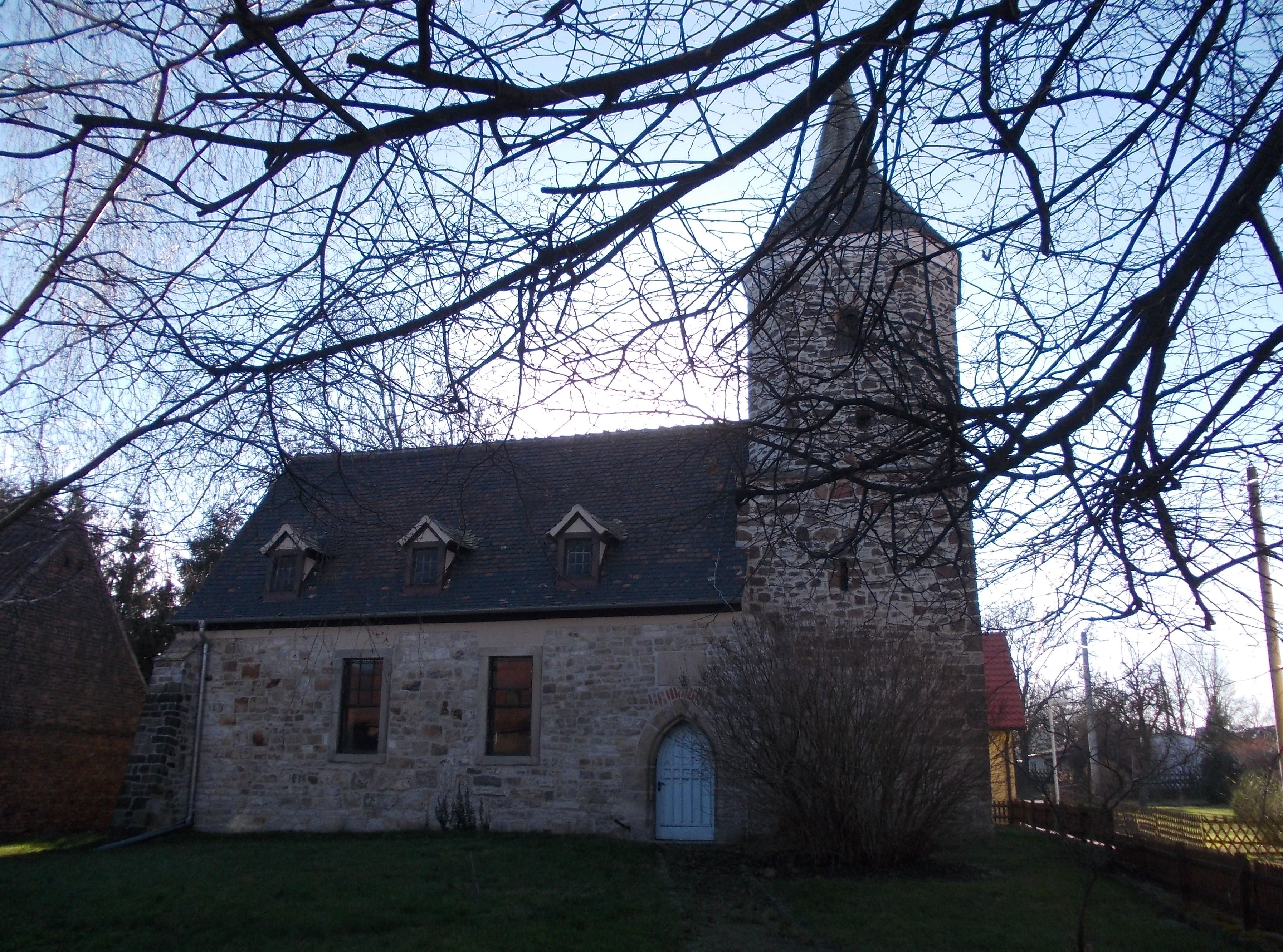 Posendorf church in Reichardtswerben (Weissenfels, district of Burgenlandkreis, Saxony-Anhalt)